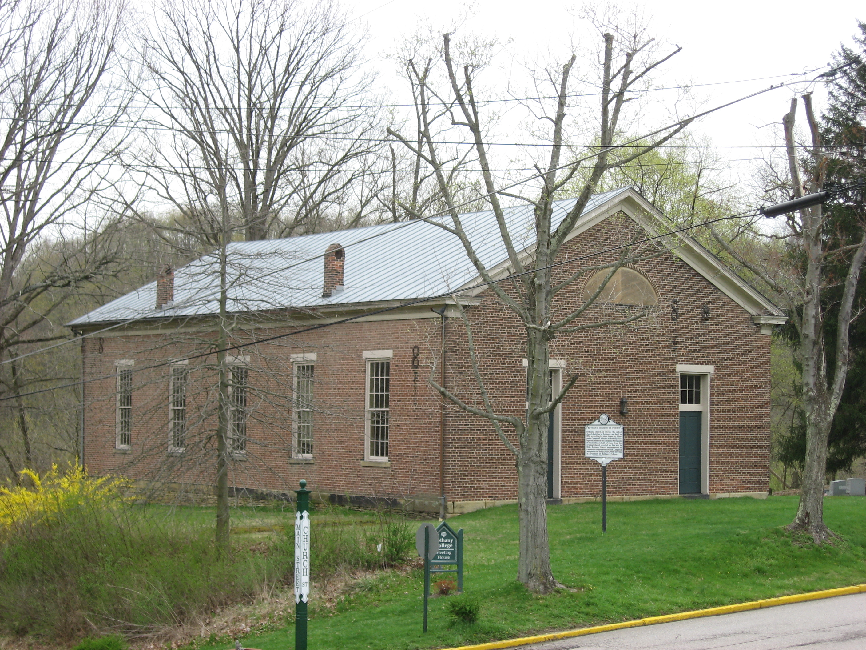 Front and eastern side of the Old Bethany Church, located at the intersection of Main (West Virginia Route 67) and Church Streets in Bethany, West Virginia, United States. Built in 1852, it is listed on the National Register of Historic Places, and it is part of a Register-listed historic district, the Bethany Historic District.